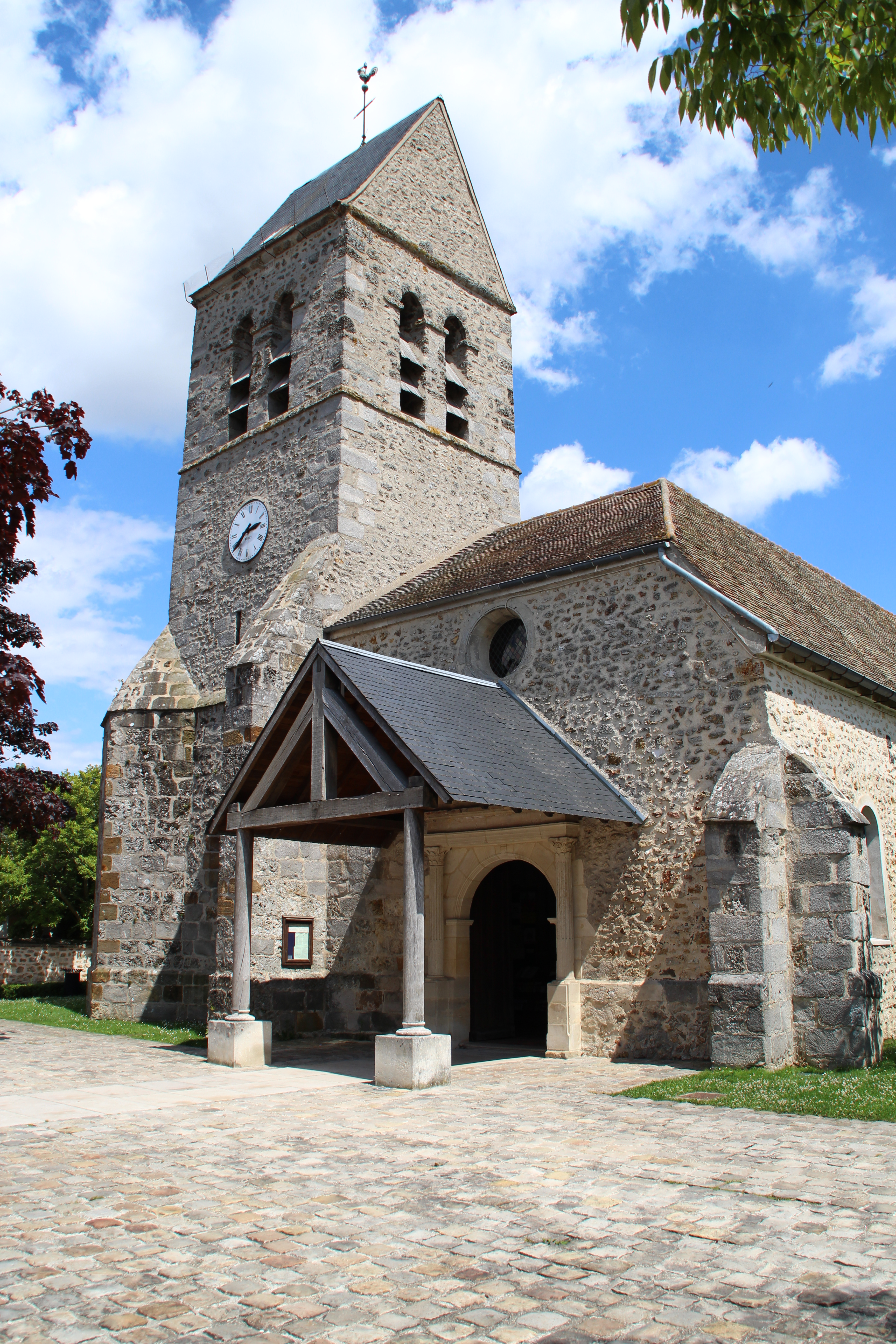 Saint-Martin church in Montigny-le-Bretonneux, France.